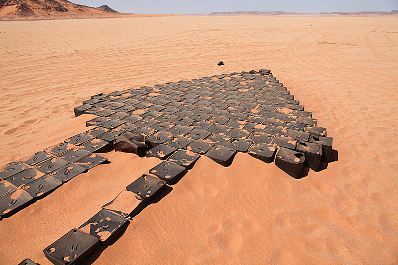 Arrow to the aerodrome, Eight Bells, Western Desert, Egypt